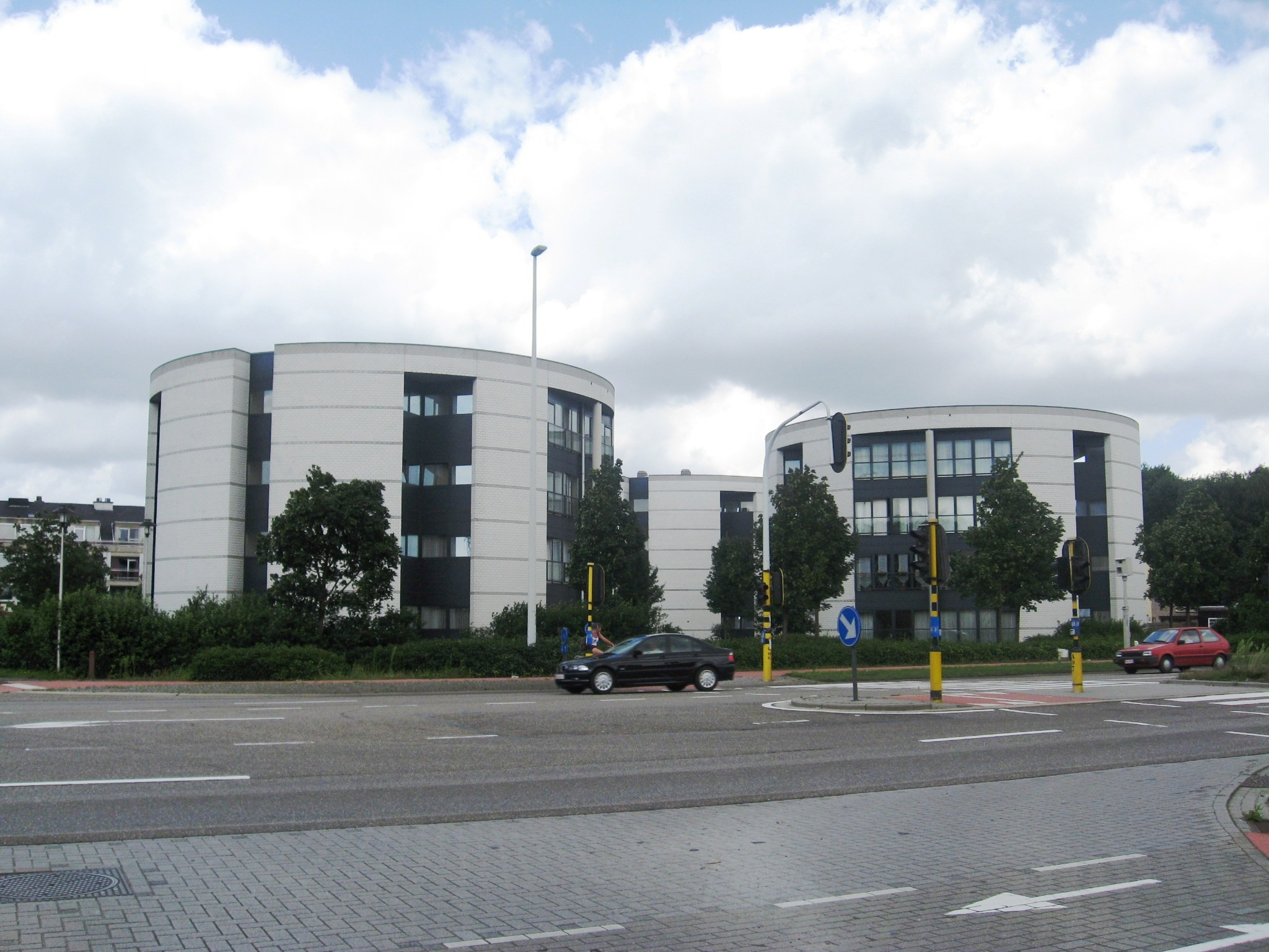 Round buildings on the Lutselusplein in Diepenbeek (Lutselus), Limburg, Belgium